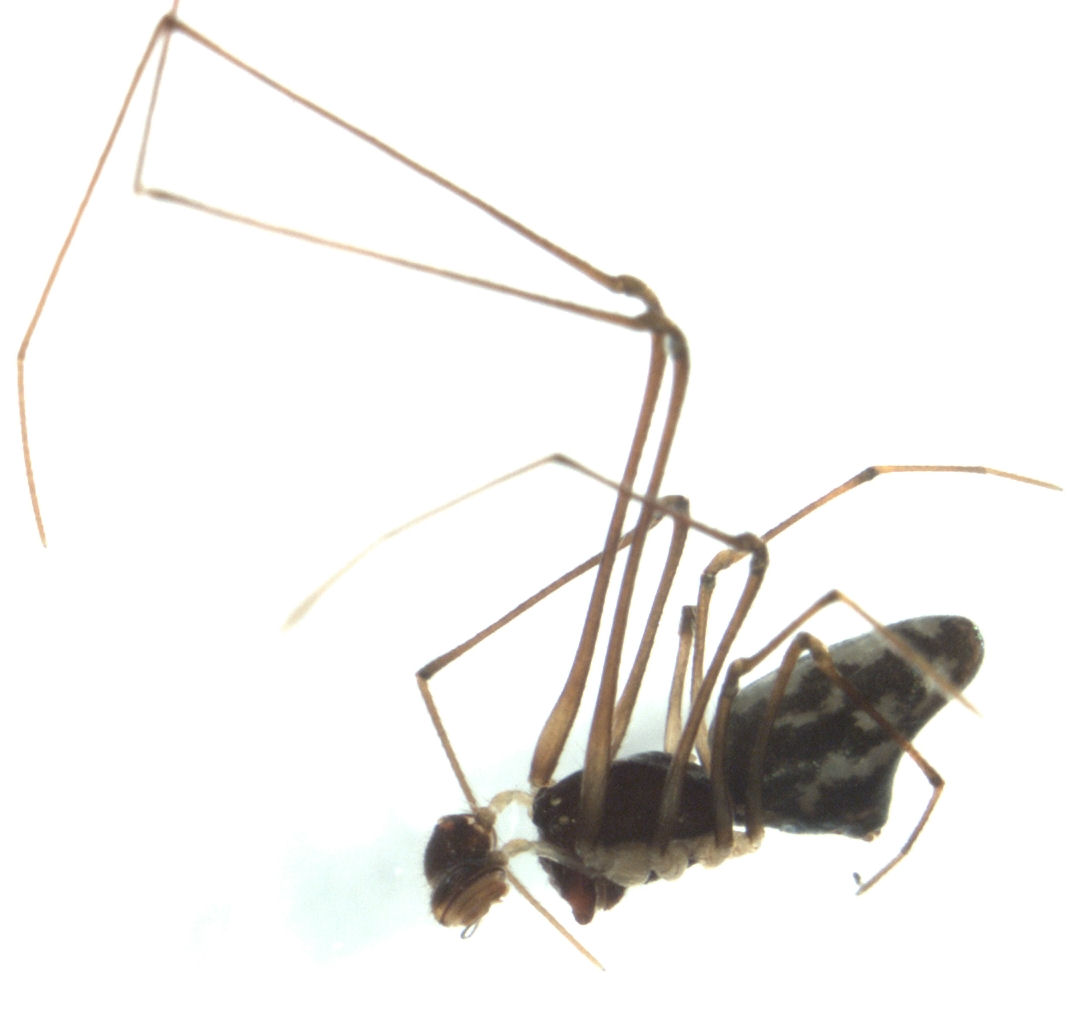 adult male Tekelloides flavonotatus